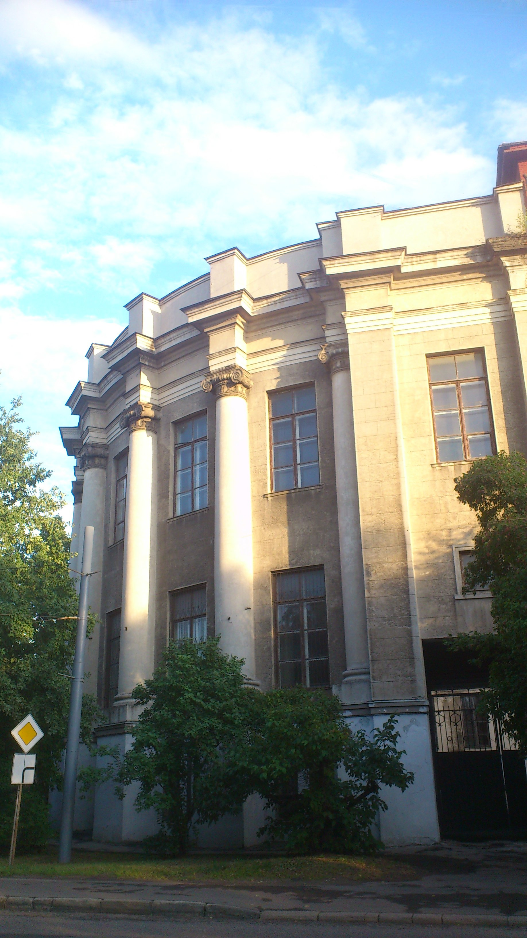 Учебный корпус Московской сельскохозяйственной академии имени К. А. Тимирязева. Москва, улица Прянишникова, 6.